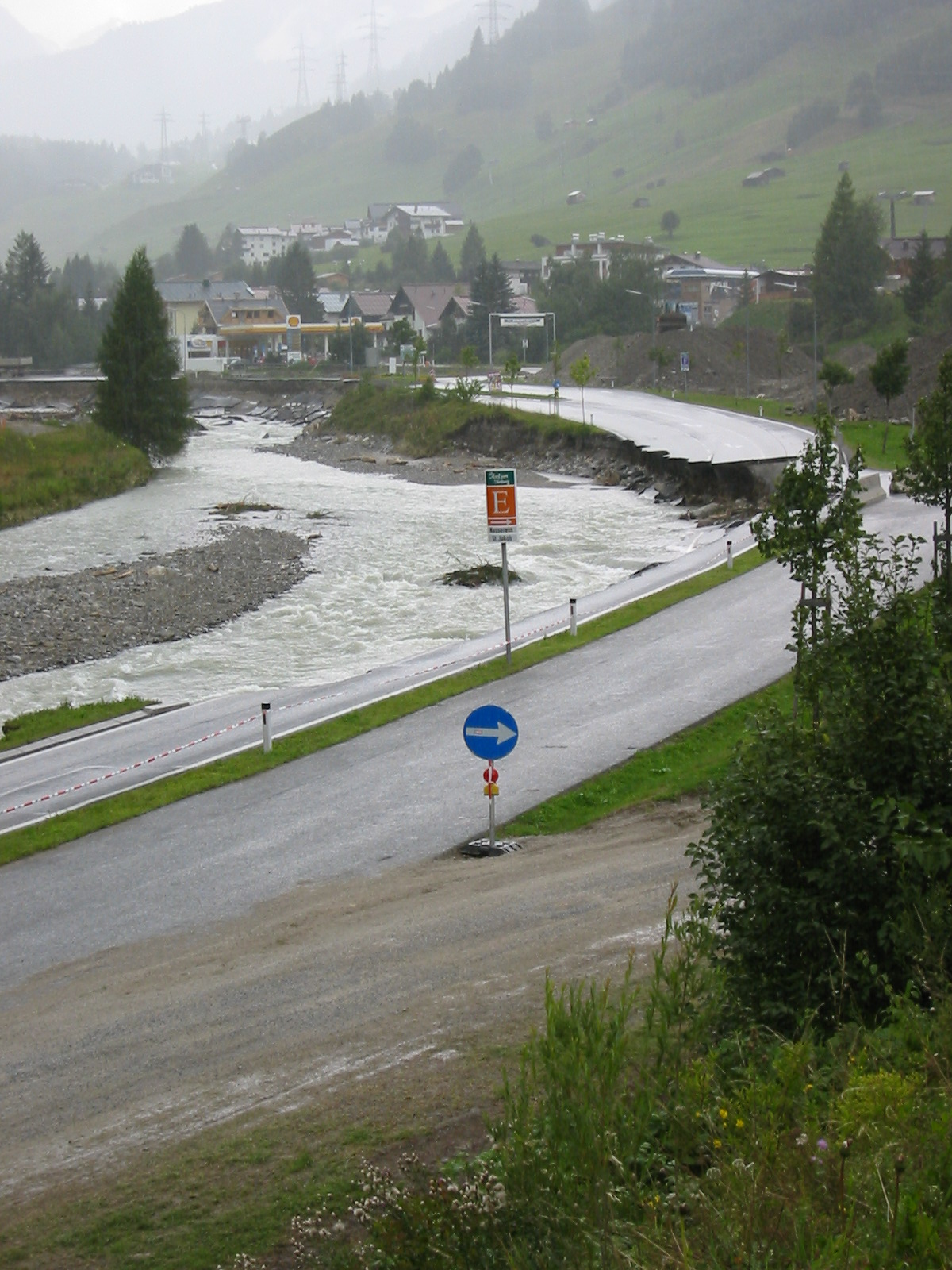 St. Anton am Arlberg a few days after the flood events of 2005